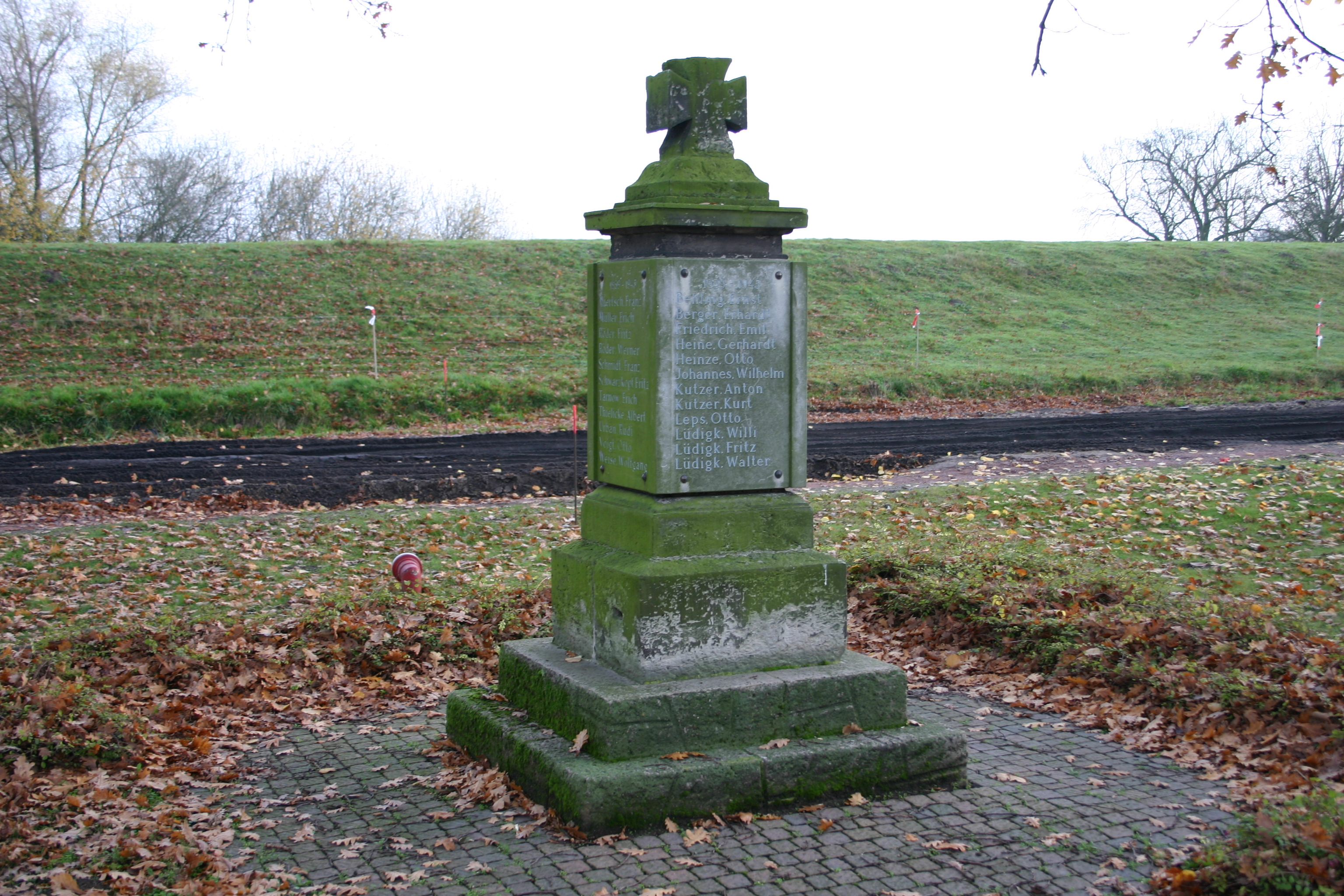 War memorial in memory of soldiers who died in World War I and II